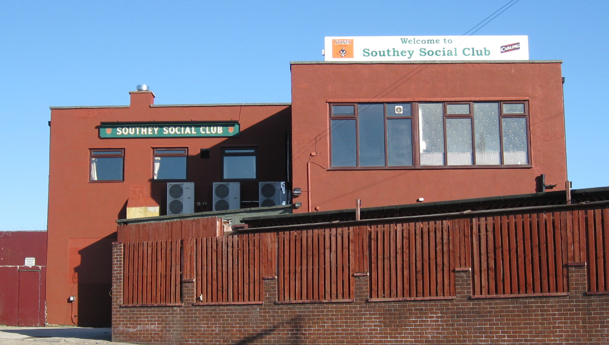 Southey Social Club, top of Southey Green Road, Sheffield S5 7QQ.